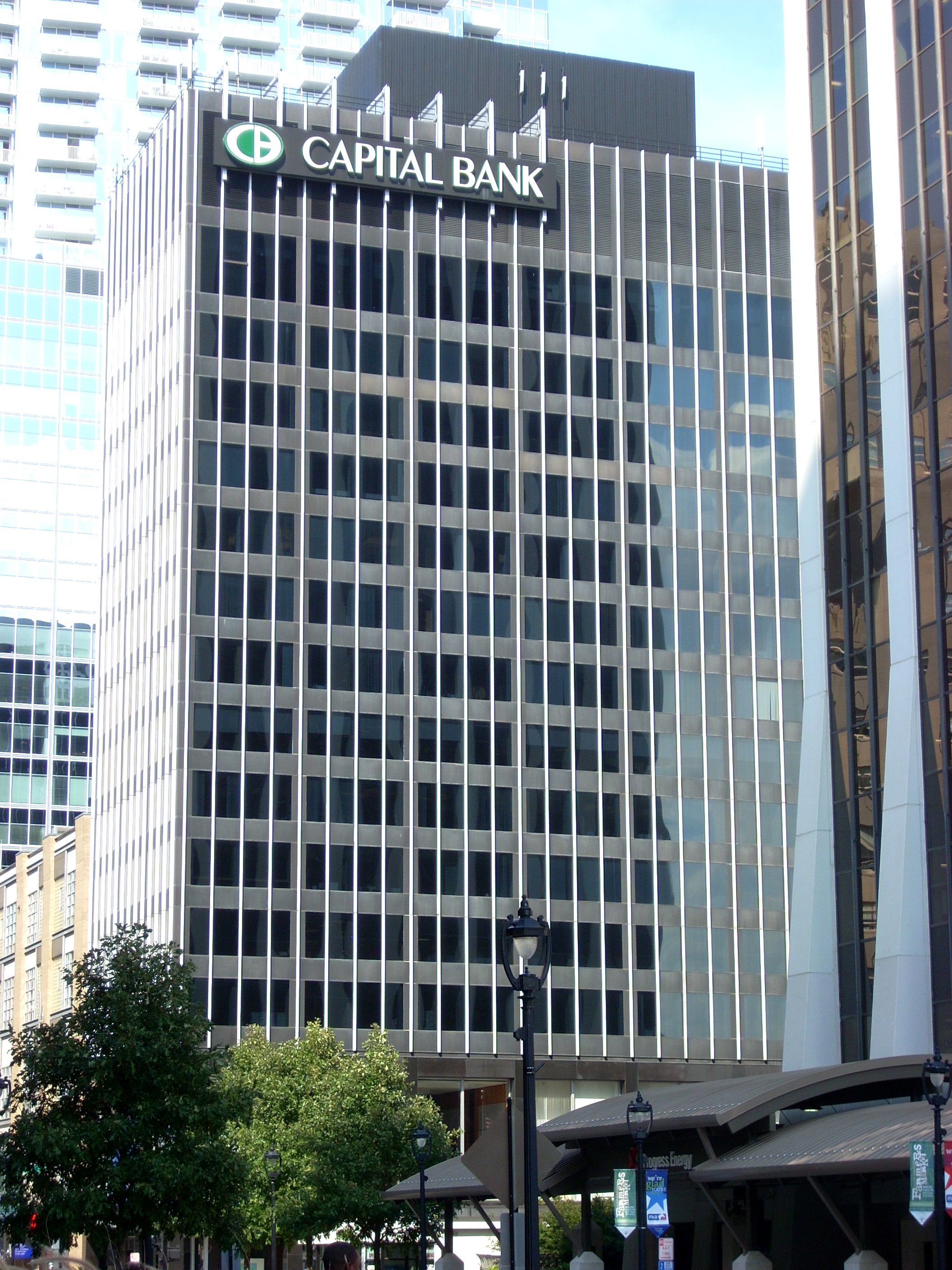 Capital Bank Plaza in Raleigh, North Carolina.